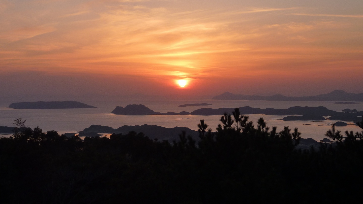 The Sunset from Mount Yumihari in Sasebo City, Nagasaki, Japan